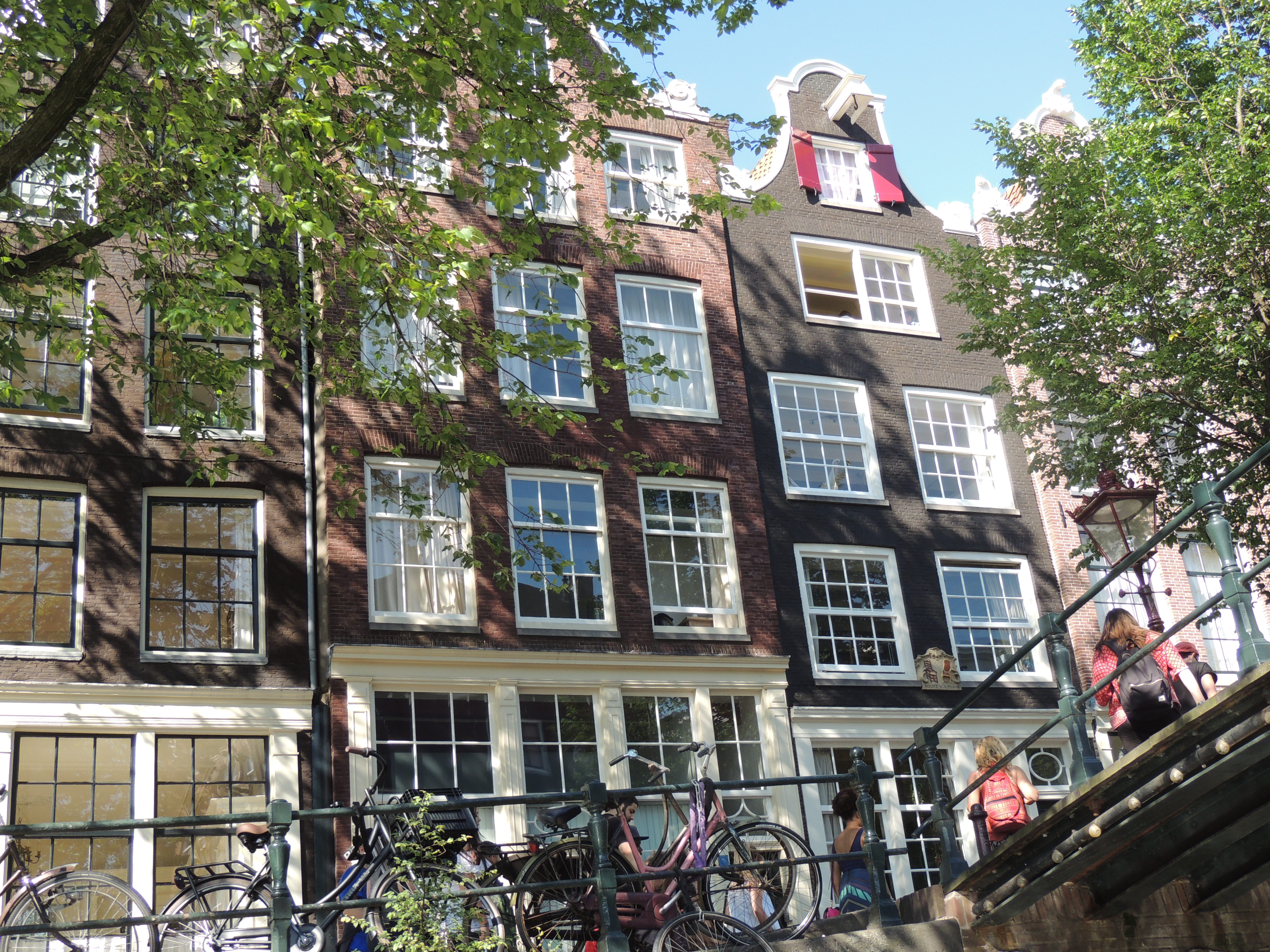 Canalside houses in Amsterdam (Holland).